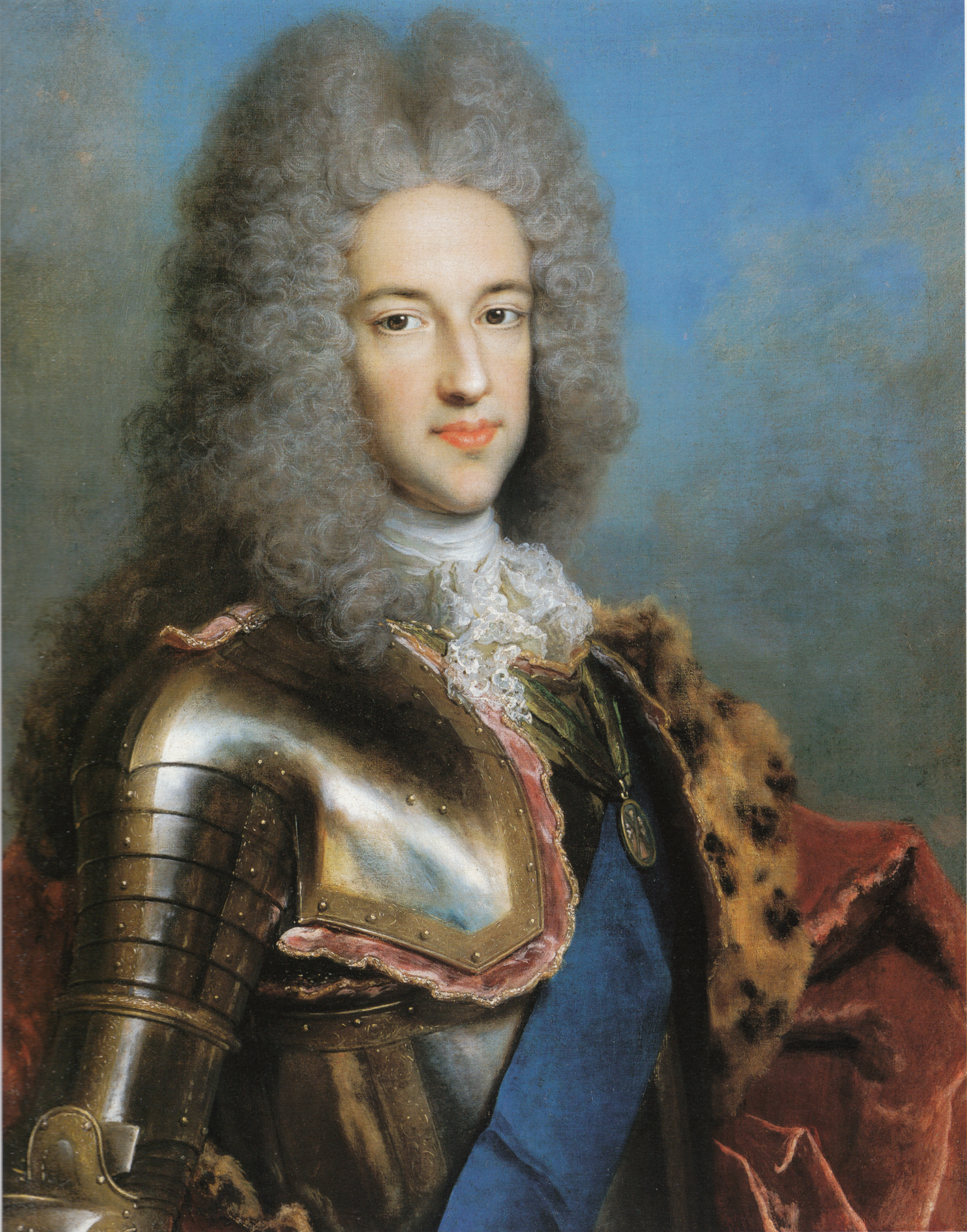 Portrait of James Francis Edward Stuart, the Old Pretender